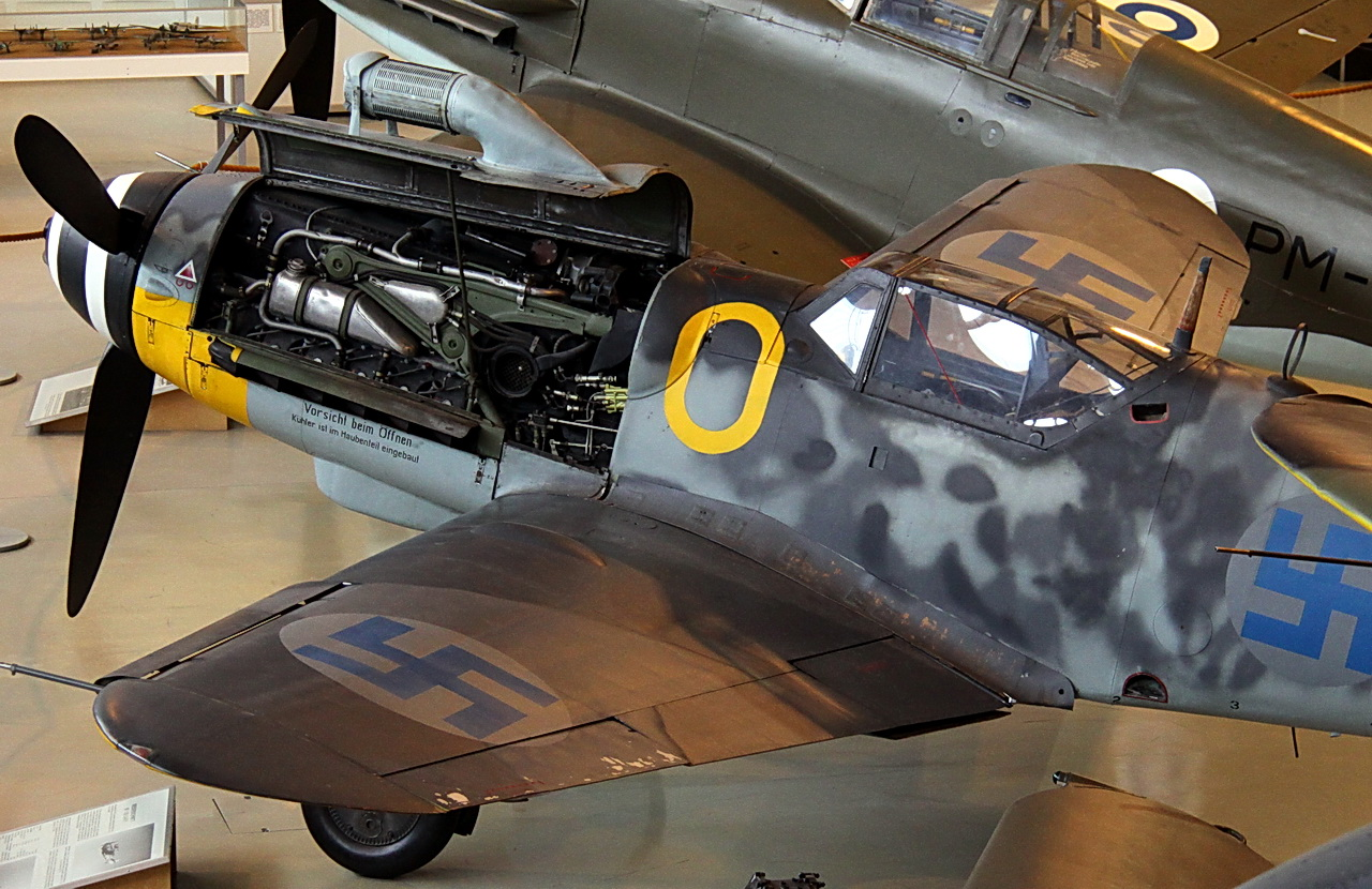 Messerschmitt Bf 109 G-6 (MT-507) in Aviation Museum of Central Finland.